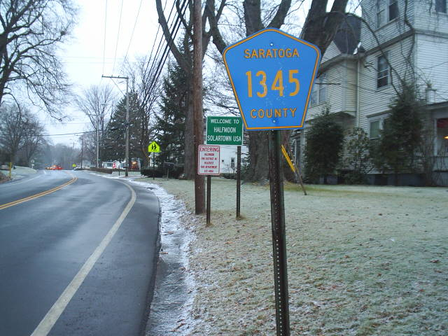 Signage for Saratoga County Route 1345 in Halfmoon, New York, a former alignment of NY 146.